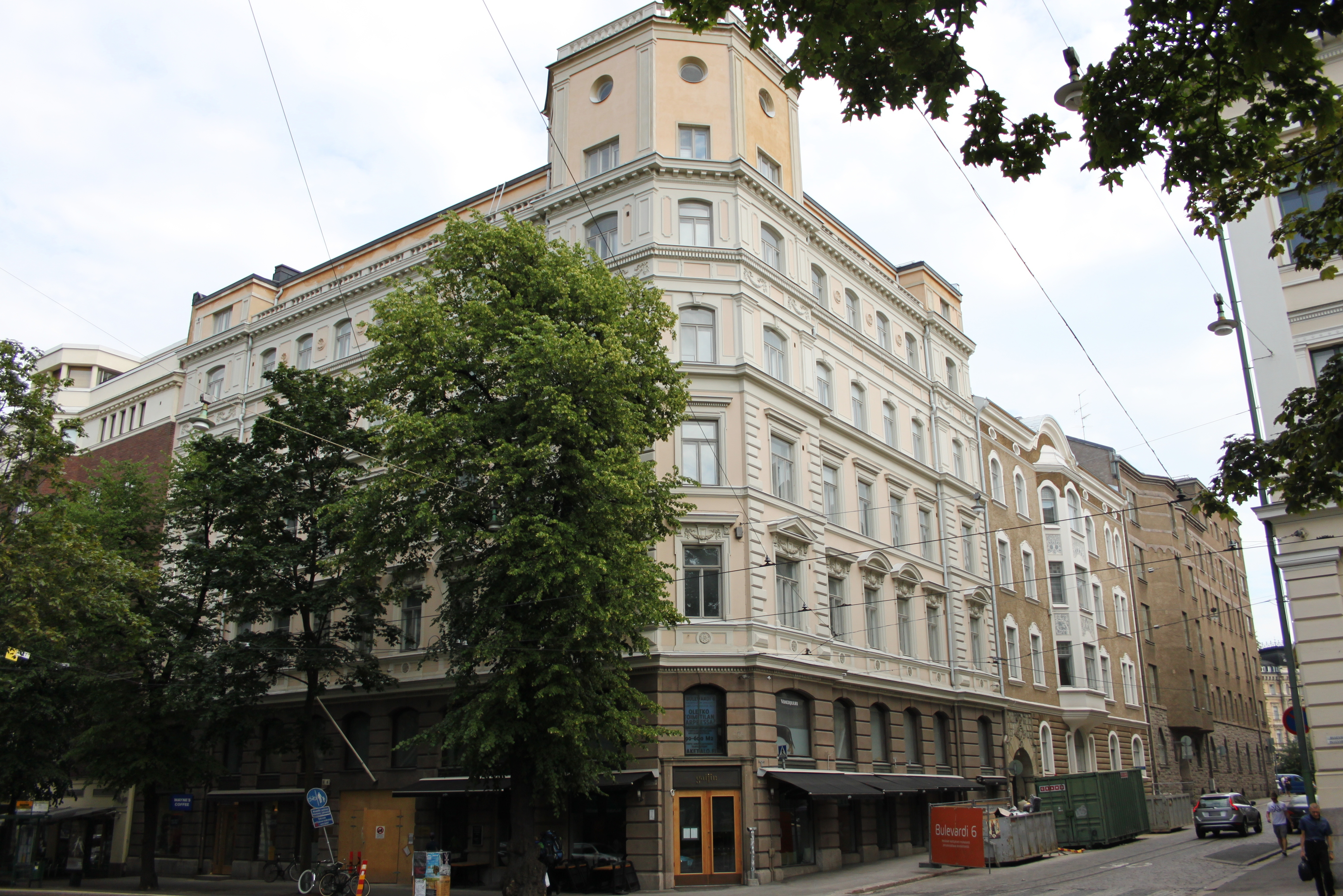 Bulevardi 6 / Yrjönkatu 7, Helsinki. Architecht: Theodor Granstedt. Built 1888.